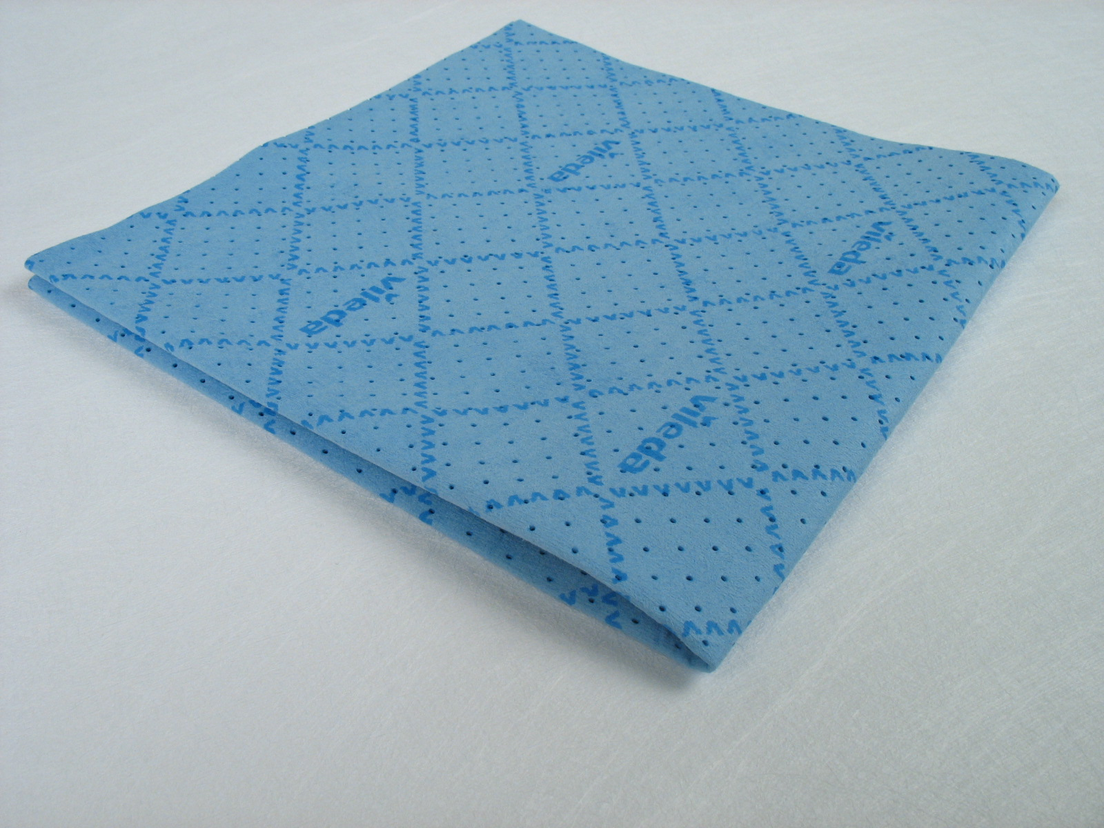 Microfiber household cloth